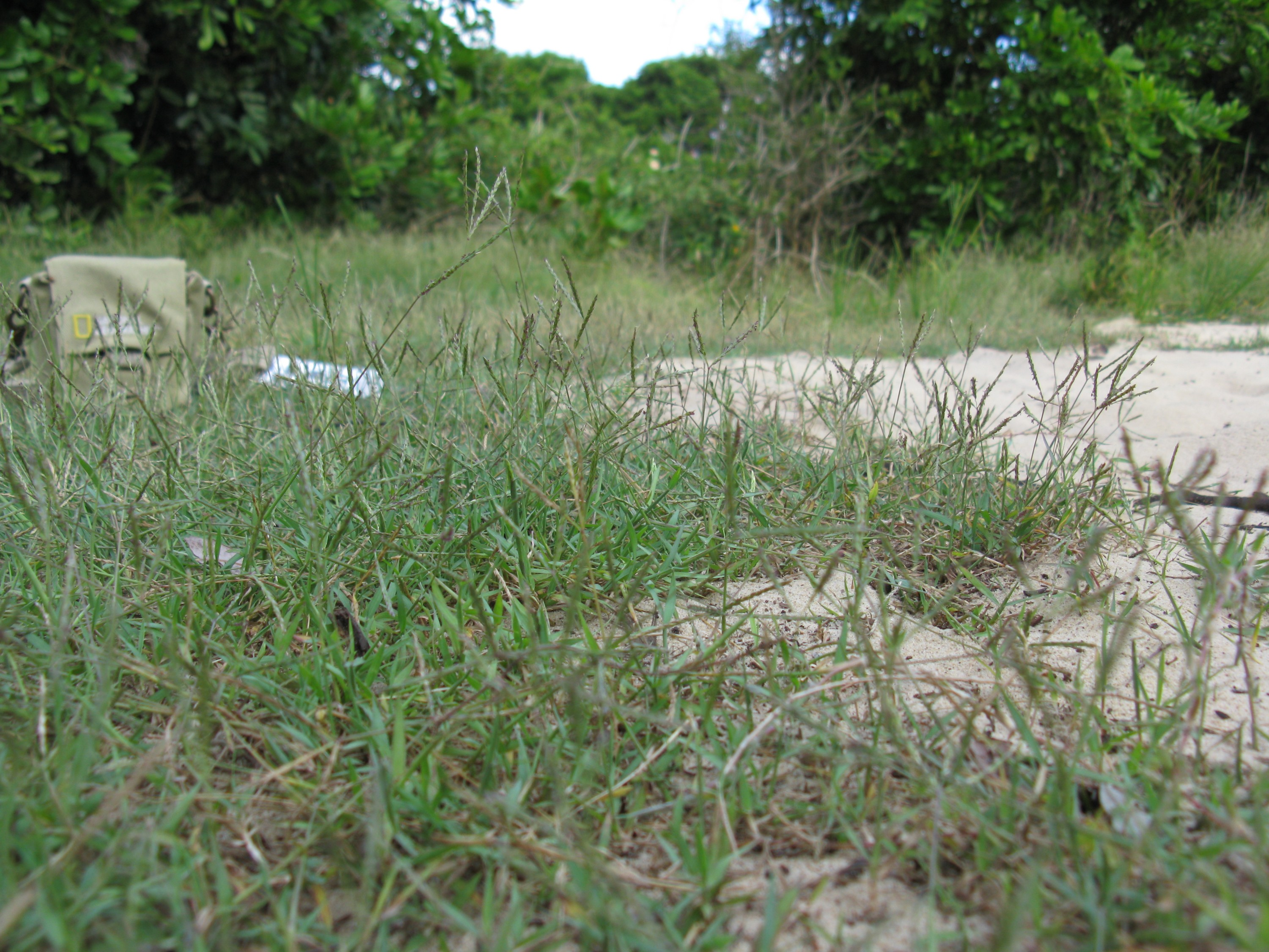 Often an indicator of sandy soils.